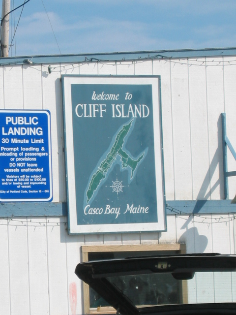 A welcoming sign for visitors to Cliff Island, Maine. Photo taken by Dudesleeper on August 26, 2003.